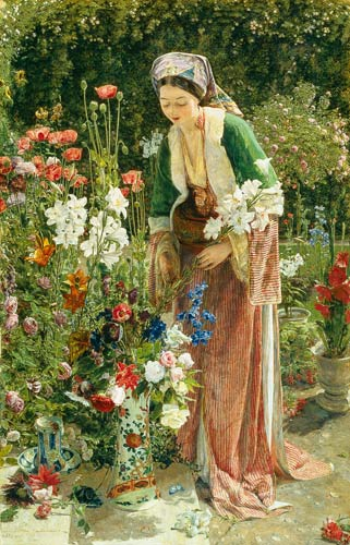 In the Bey's Garden